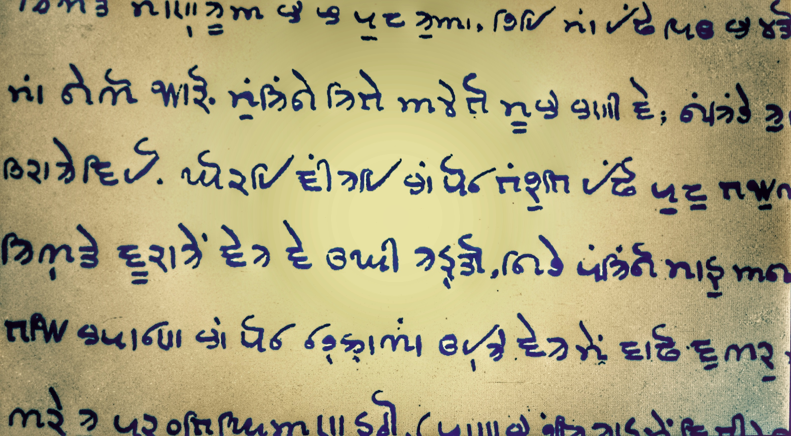 Trading records by my grandfather Rajesh Bhatia in 1916. I am the current owner of these records and release the rights of this image.